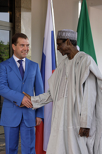 ABUJA. With President of Nigeria Umaru Yar’Adua.